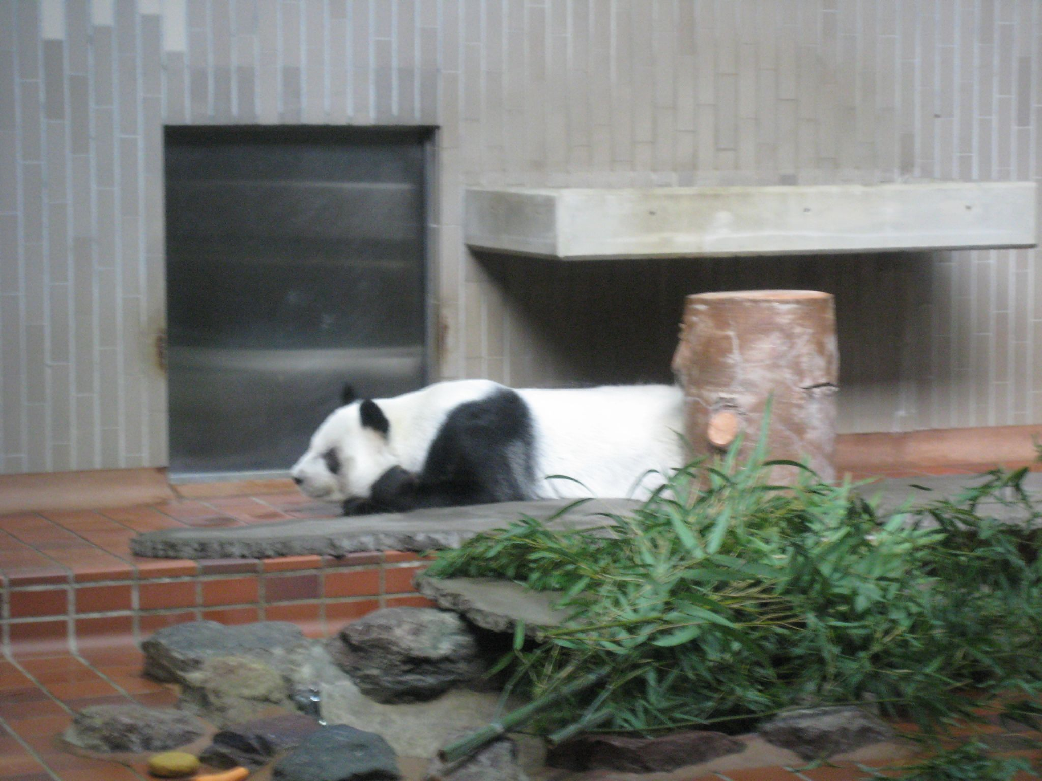 Ling Ling, the Ueno Zoo's Panda Bear.